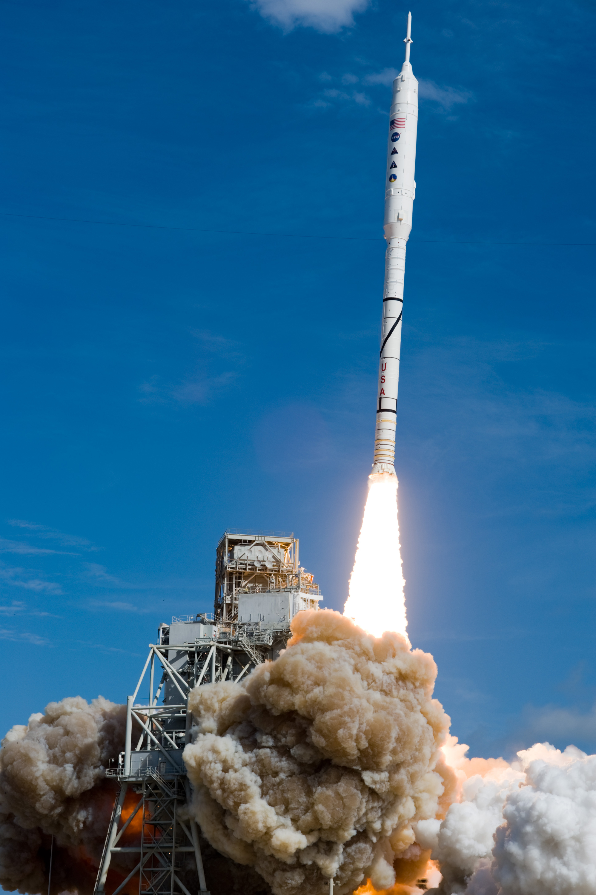 CAPE CANAVERAL, Fla. – Smoke and steam shoot from Launch Pad 39B at NASA's Kennedy Space Center in Florida as NASA’s Constellation Program's 327-foot-tall Ares I-X test rocket launches at 11:30 a.m. EDT Oct. 28. The rocket produces 2.96 million pounds of thrust at liftoff and reaches a speed of 100 mph in eight seconds. This was the first launch from Kennedy's pads of a vehicle other than the space shuttle since the Apollo Program's Saturn rockets were retired. The parts used to make the Ares I-X booster flew on 30 different shuttle missions ranging from STS-29 in 1989 to STS-106 in 2000. The data returned from more than 700 sensors throughout the rocket will be used to refine the design of future launch vehicles and bring NASA one step closer to reaching its exploration goals. For information on the Ares I-X vehicle and flight test, visit